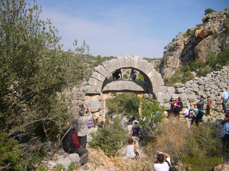 Susanoğlu (Corasion)ruins in Mersin Province, Turkey